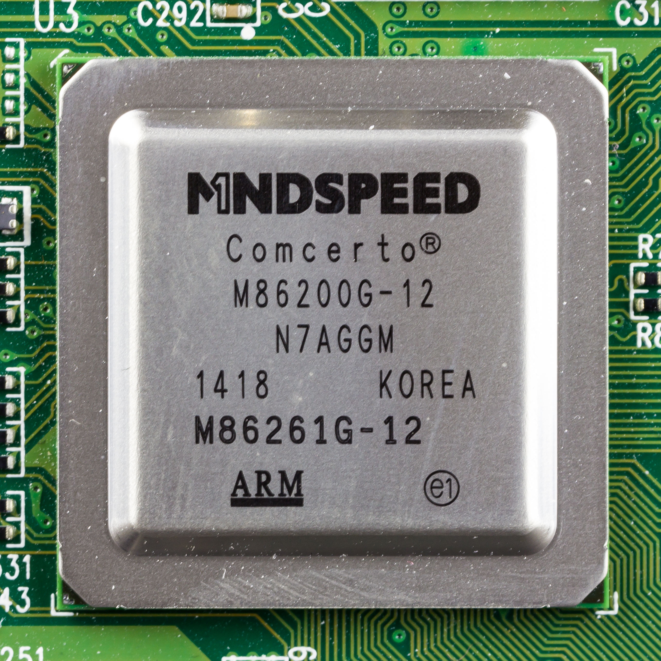 Controller of a Western Digital My Cloud 4 TB. Detail: ARM processor Mindspeed Comcerto M86200G-12 N7AGGM